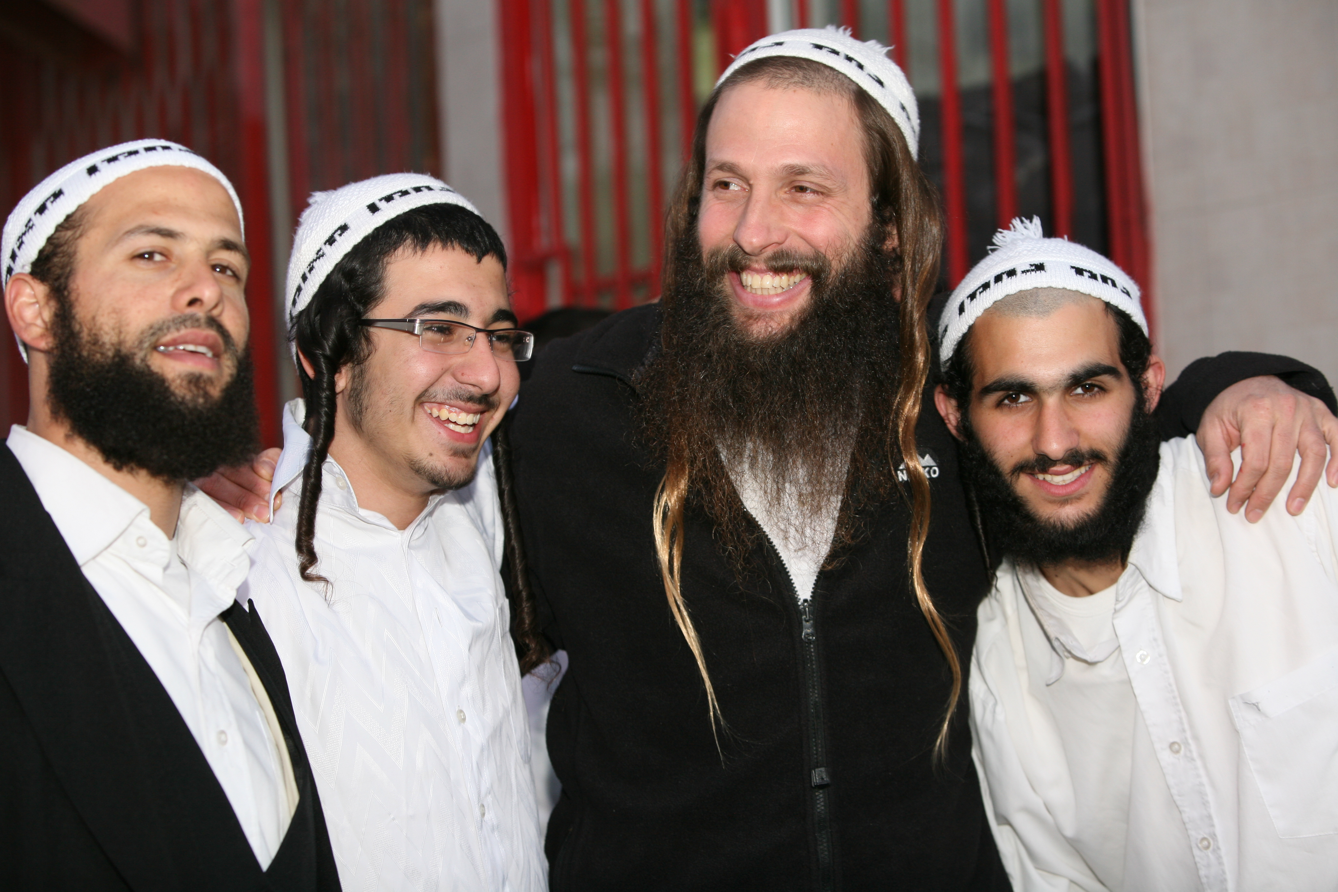 Cities in Israel